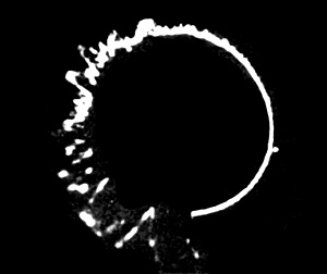 The effect of Window on the display of a German Giant Würzburg (Würzburg-Riese) radar. Imperial War Museum? - picture scanned by me Ian Dunster 12:56, 27 March 2006 (UTC) from the The Radar War article in the November 1978 issue of Aeroplane Monthly and uncredited.